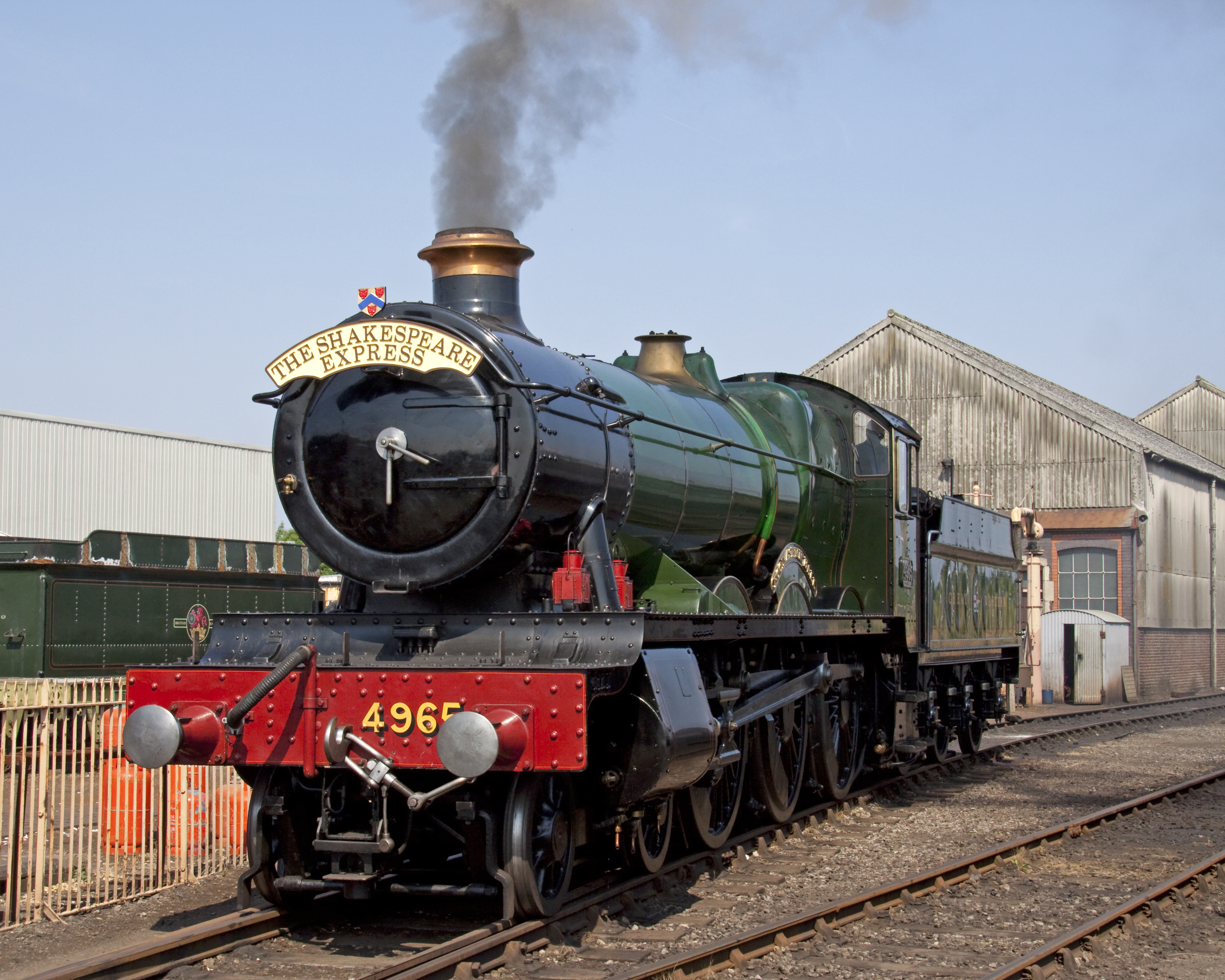 Rood Ashton Hall 1